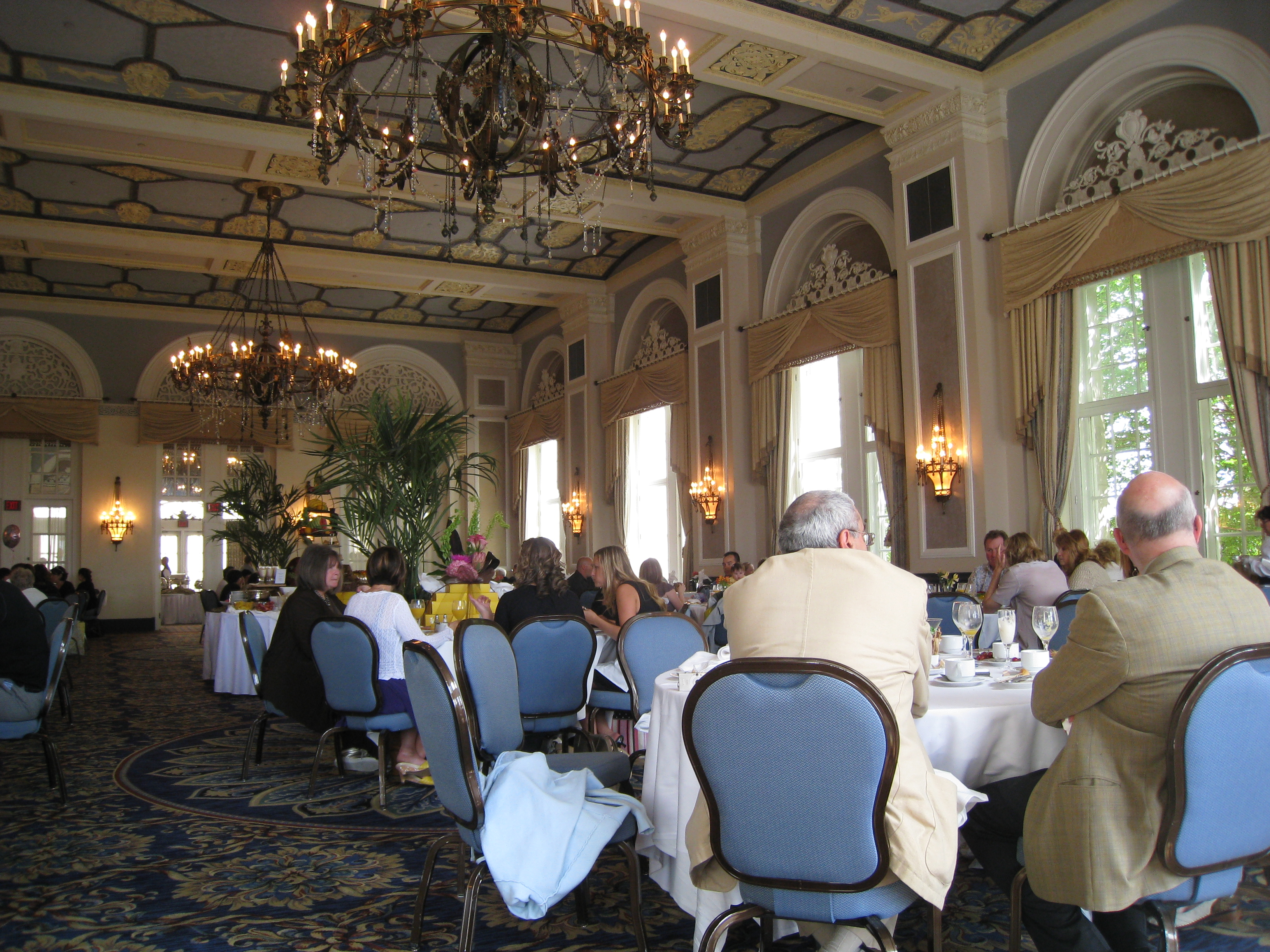 Brunch at Hotel MacDonald